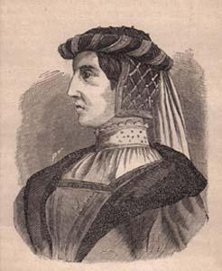 Joanna la Beltraneja (1462– 1530), a claimant to the throne of Castile, and Queen of Portugal as the wife of King Afonso V, her uncle.